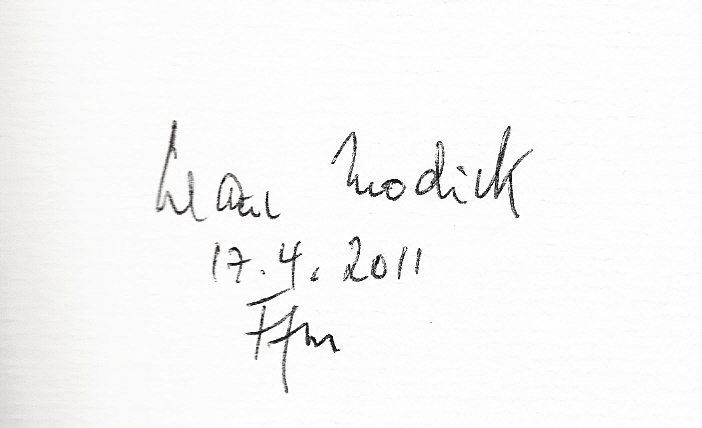 Autograph from Klaus Modick, German writer and literary translator, 2011 in Frankfurt am Main, Germany.